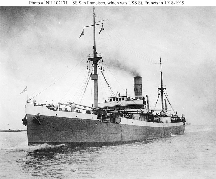 USS St. Francis (ID-1557) photographed prior to her World War I Naval Service.